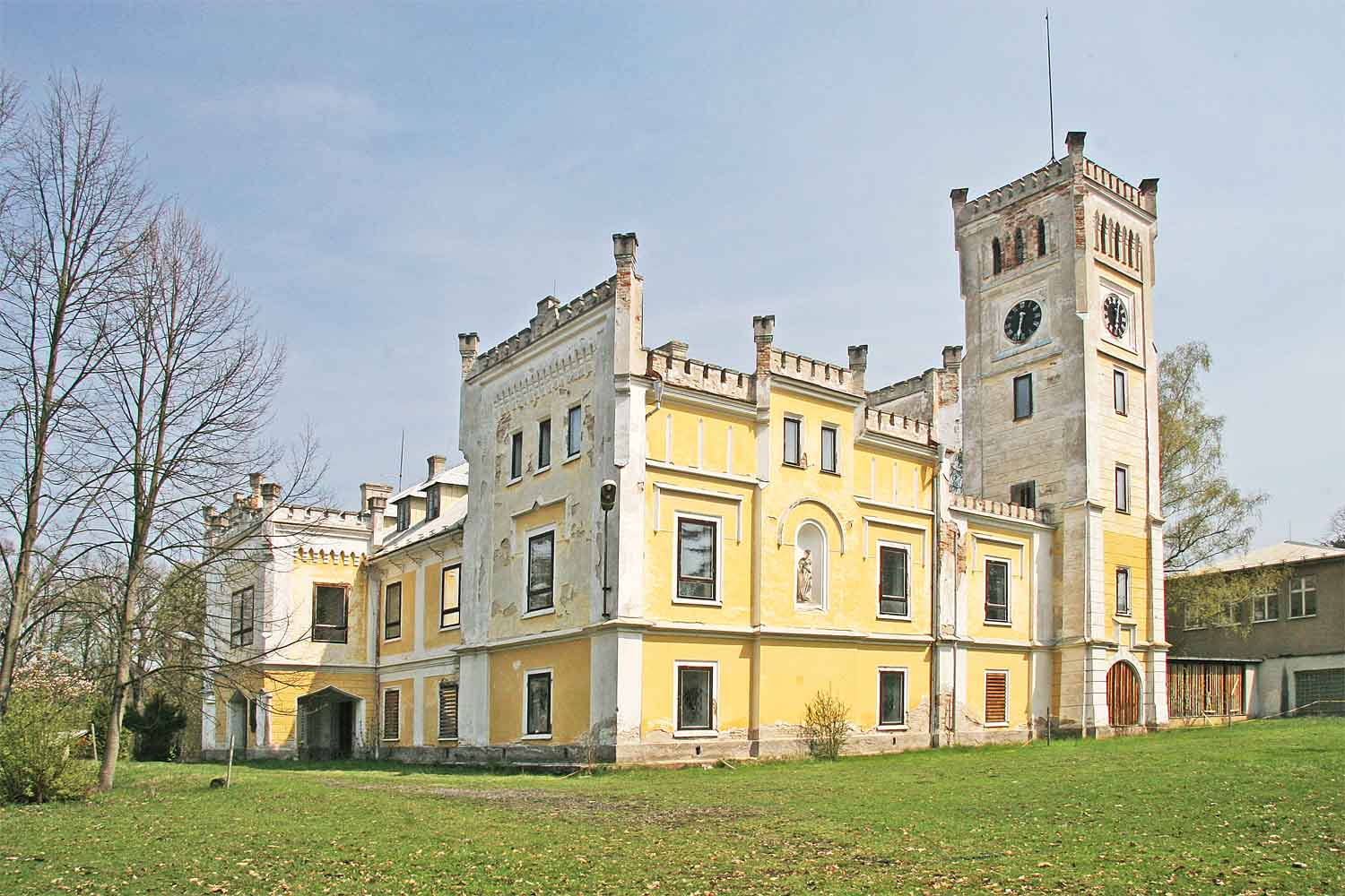 Neo-Gothic manor house from 1865 in Býchory near Kolín, Czech Republic. Czech violinist and composer Jan Kubelík lived here since 1904 to 1916. His son, conductor and composer Rafael Kubelík, was born here in 1914.